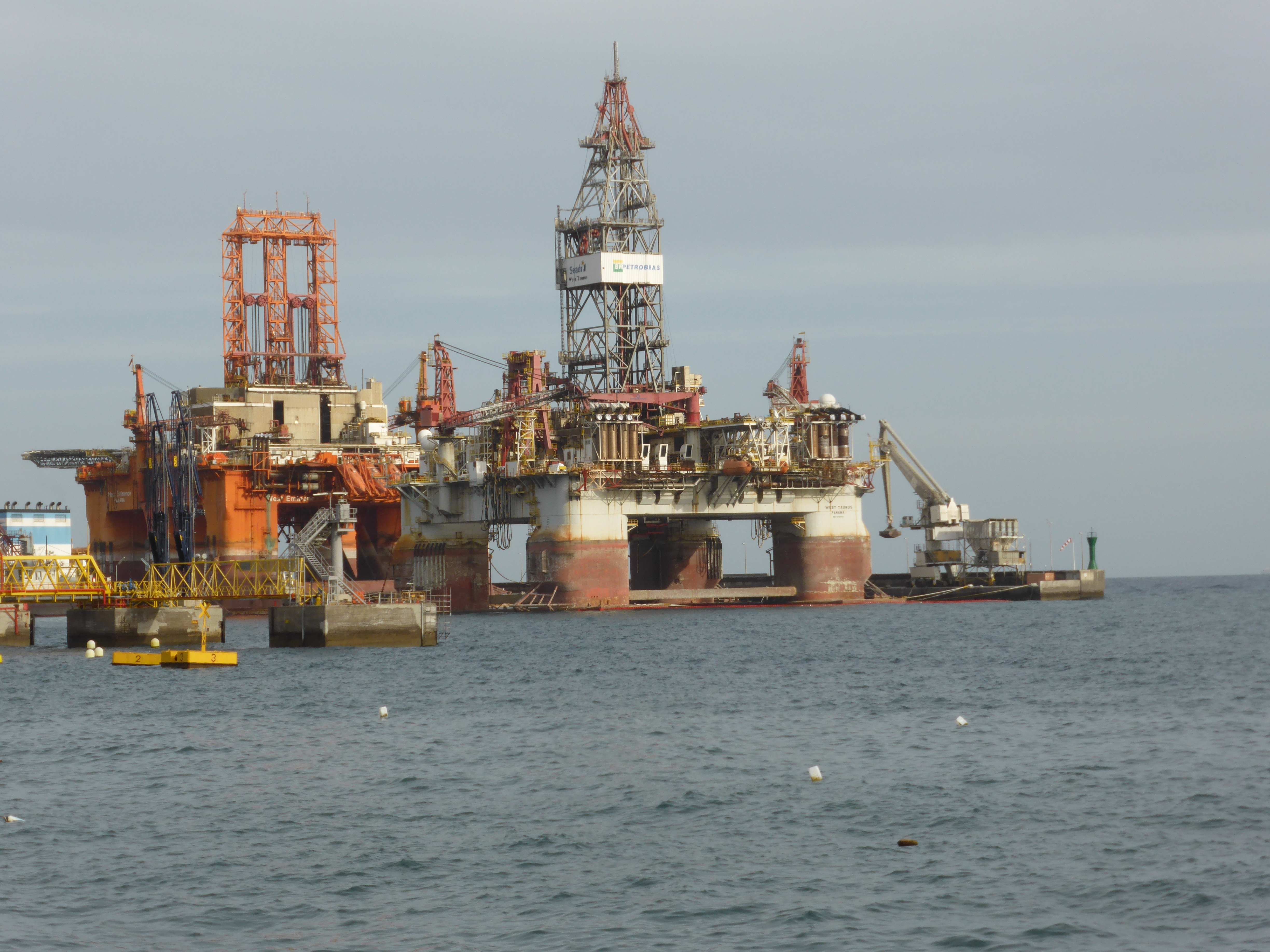 Semi-submersible drilling rigs. "West Taurus" and "West Eminence". Years 2008 and 2009.